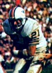 Miami Dolphins running back Jim Kiick pictured rushing the ball against the Washington Redskins during Super Bowl VII.